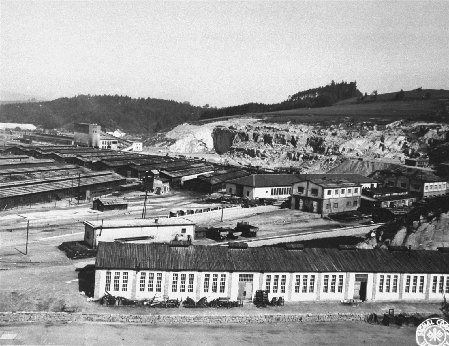 View of Gusen concentration camp after liberation